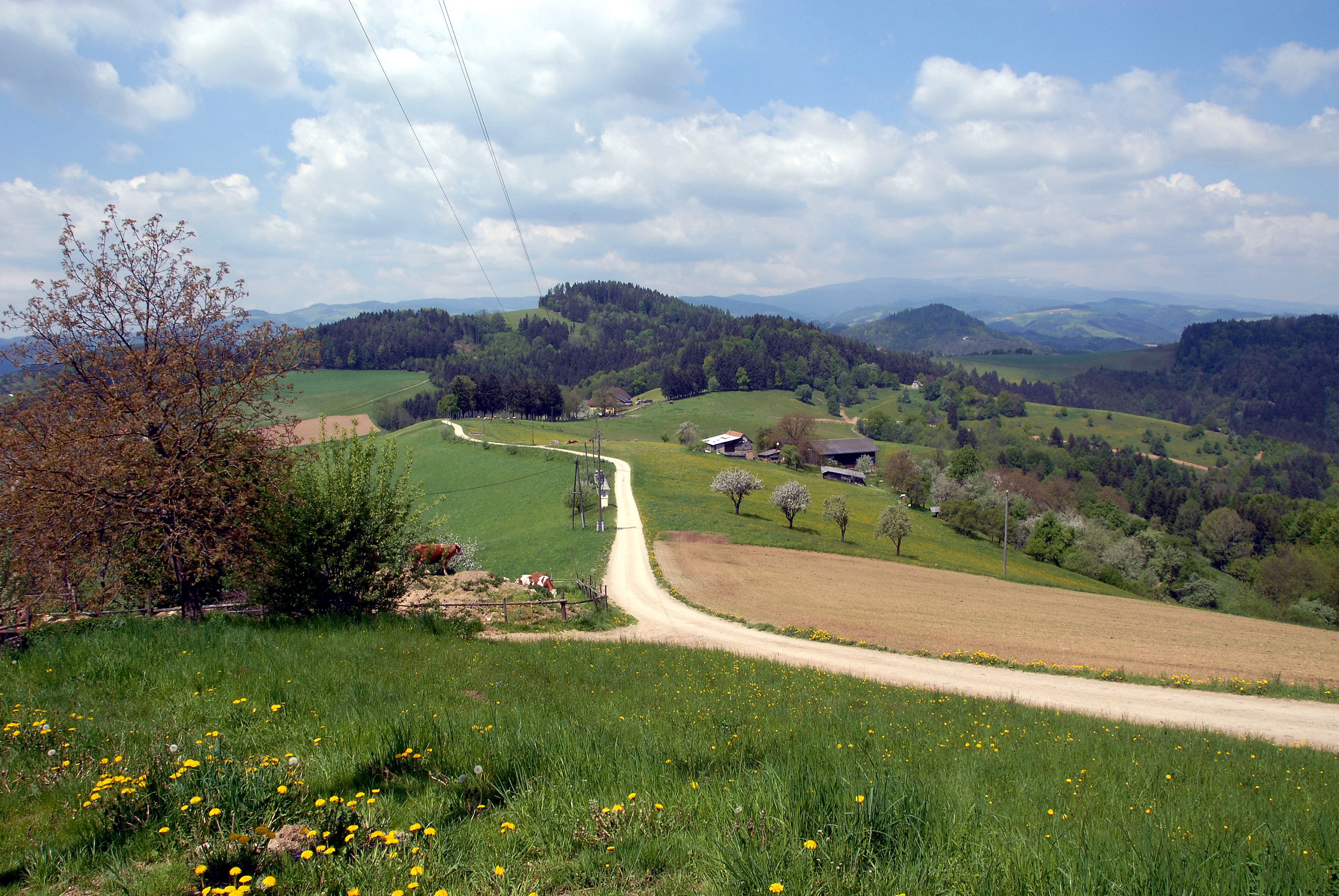 "Mostwanderweg" in the landscape at Grutschen in the community Griffen, district Voelkermarkt, Carinthia, Austria